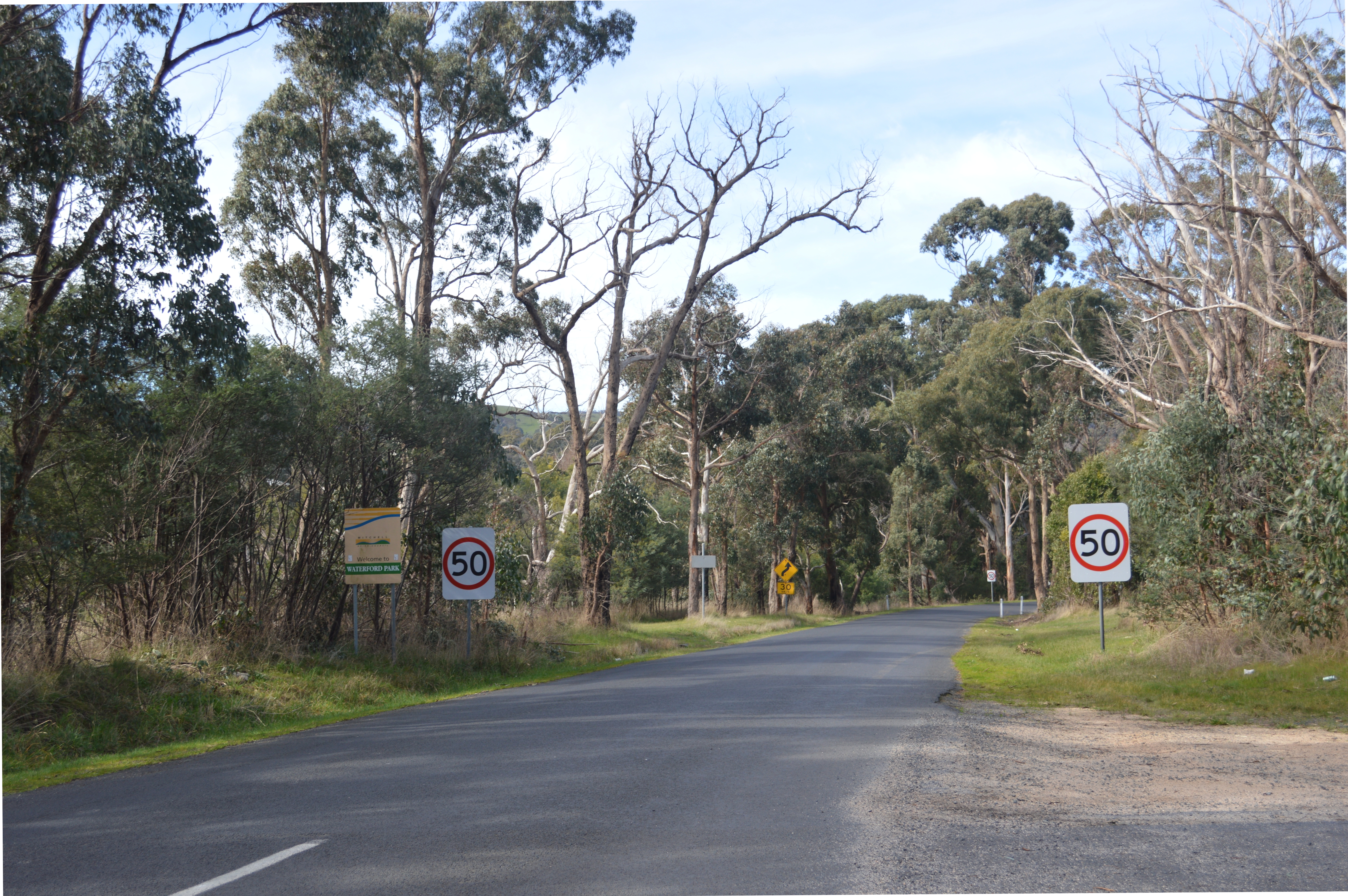 Town entry sign at Waterford Park, Victoria